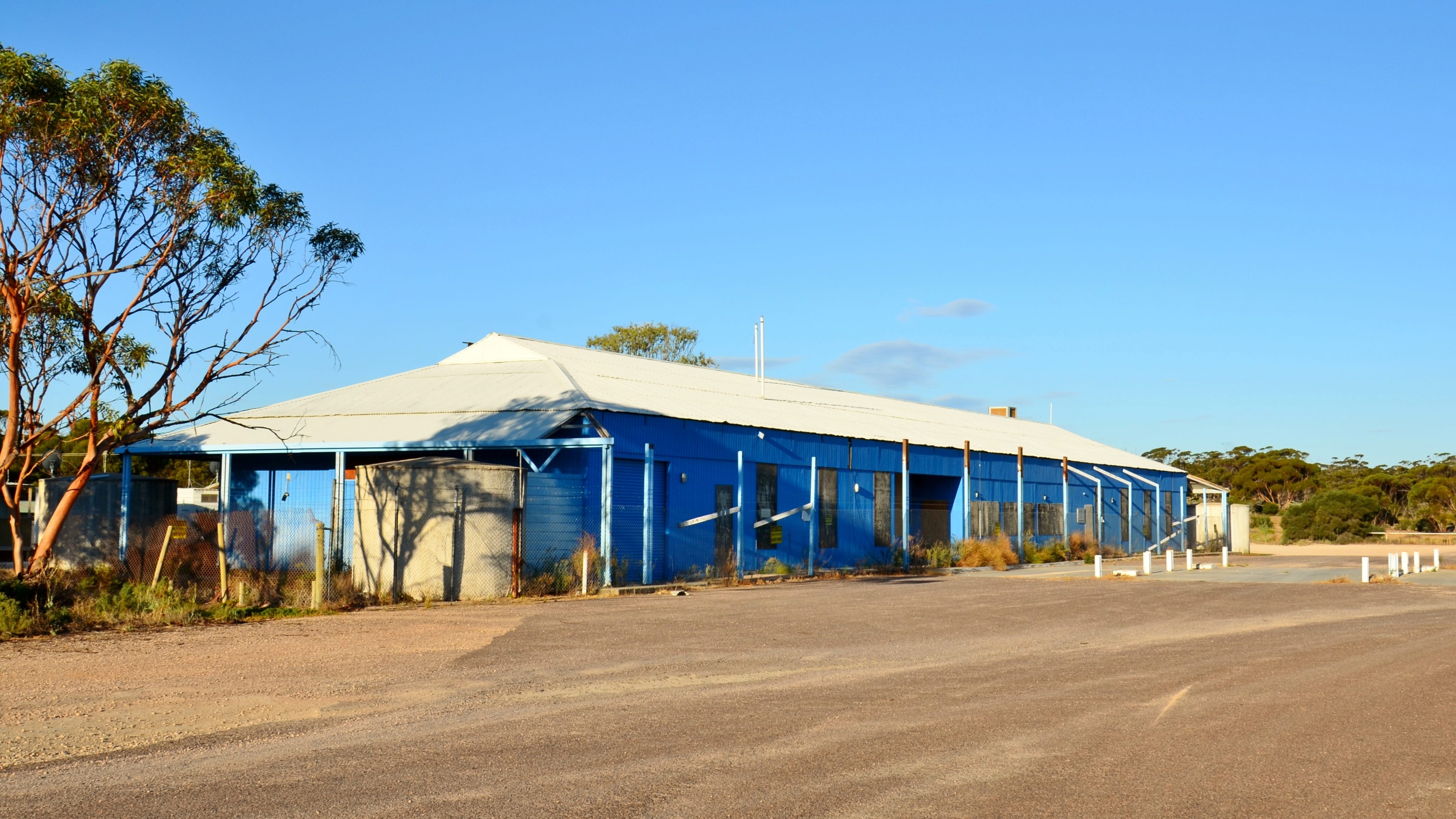 View of the former roadhouse at Yalata, South Australia.